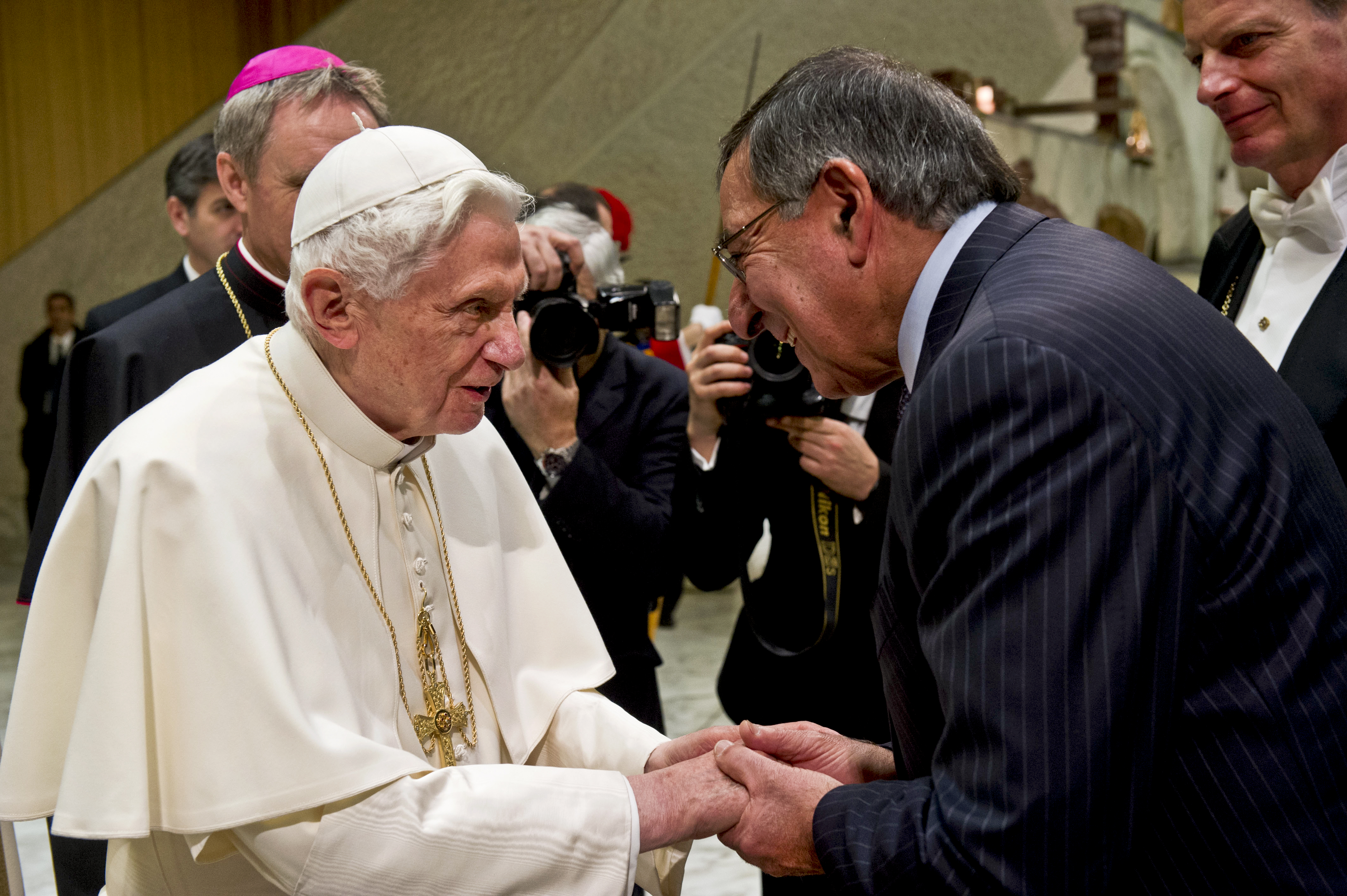 U.S. Defense Secretary Leon E. Panetta greets Pope Benedict XVI, during the pope's weekly general audience at the Vatican in Vatican City, Jan. 16, 2013. The pontiff thanked Panetta for helping to protect the world. Panetta is on a six-day trip to visit European defense counterparts and troops.